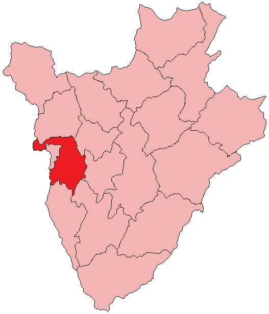 Province of Bujumbura Rural